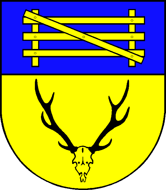 Coat of arms of the municipality Stangheck in Schleswig-Holstein, Germany.